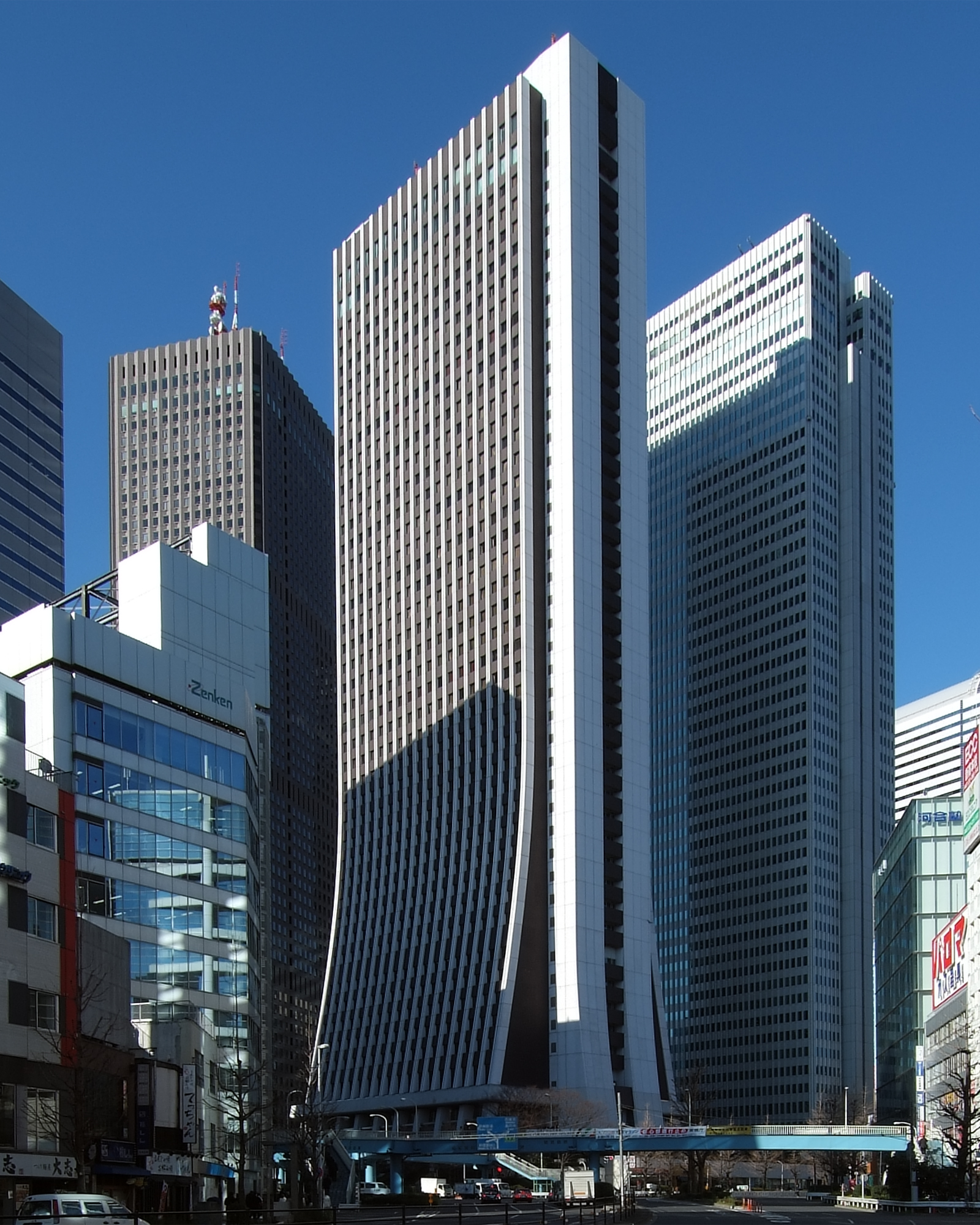 Sompo Japan Head Office Building, at shinjyuku-ku Tokyo Japan.